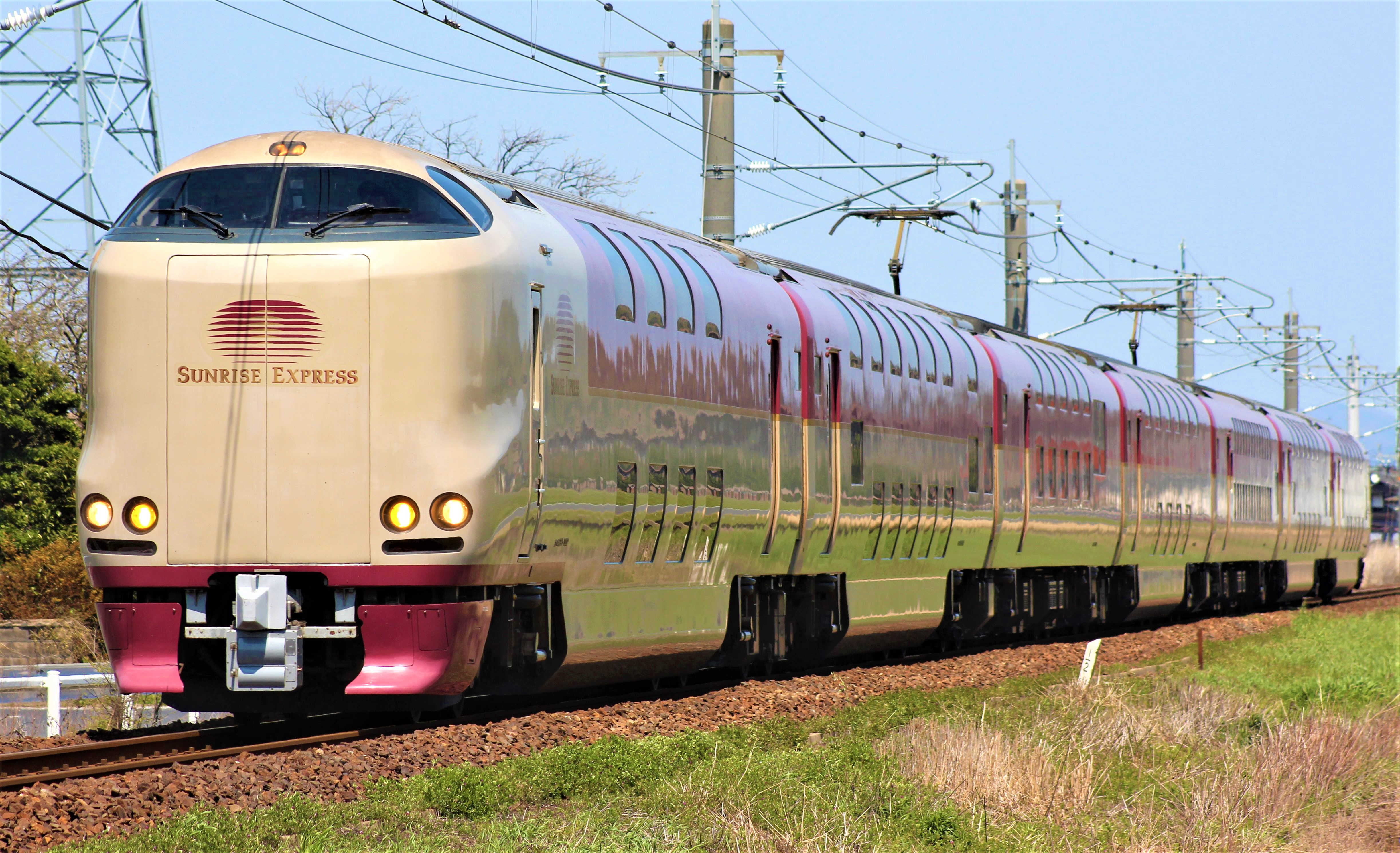 JR 285 Sunrise Izumo